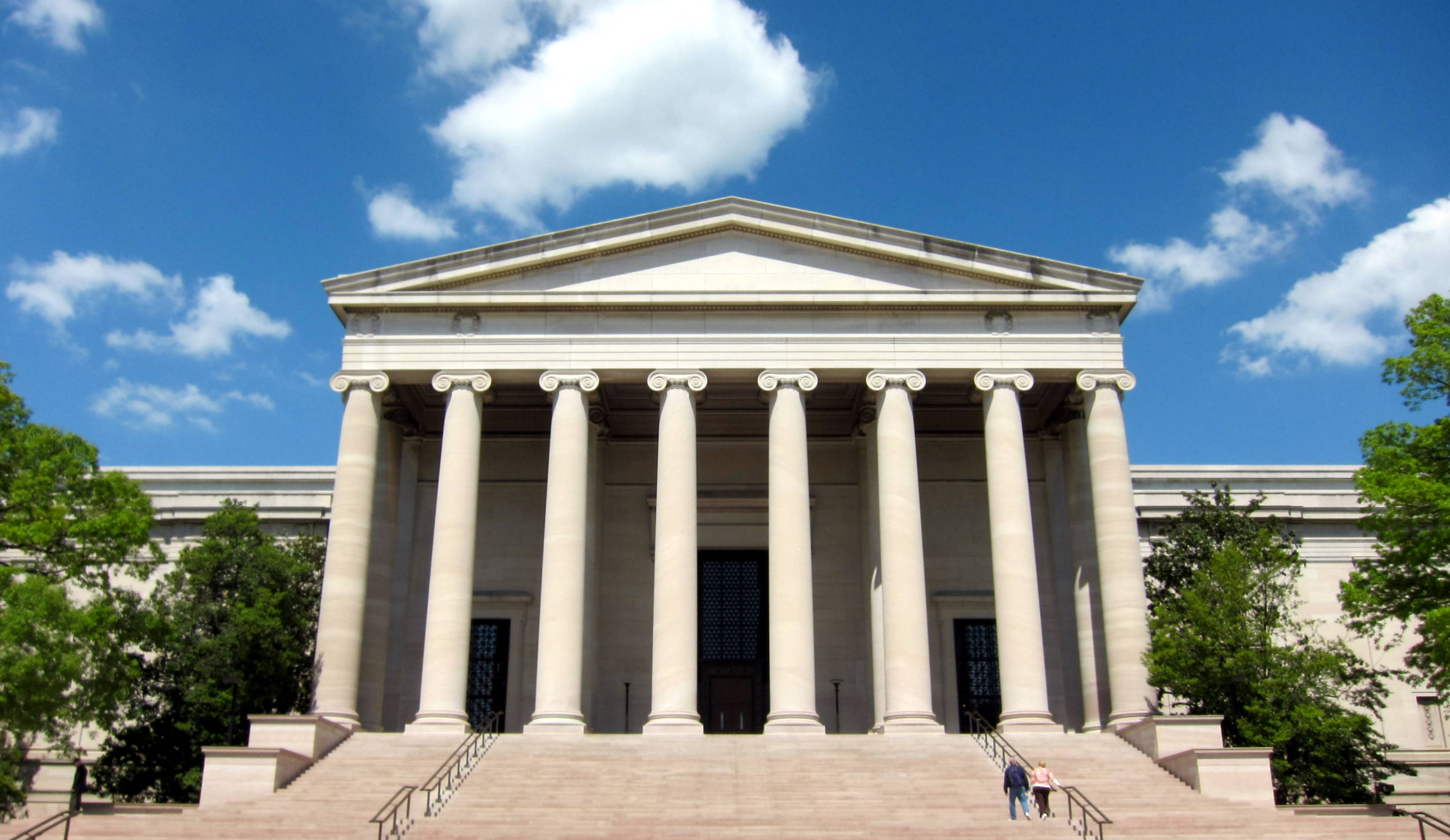 The south face of the National Gallery of Art's West Building, located between the 400–700 blocks of Madison Drive, N.W., on the National Mall in Washington, D.C. The Neoclassical-style museum was built in 1941 to the designs of noted architect John Russell Pope. The West Building is listed on the District of Columbia Inventory of Historic Sites, and is designated as a contributing property to the National Mall's listing on the National Register of Historic Places.